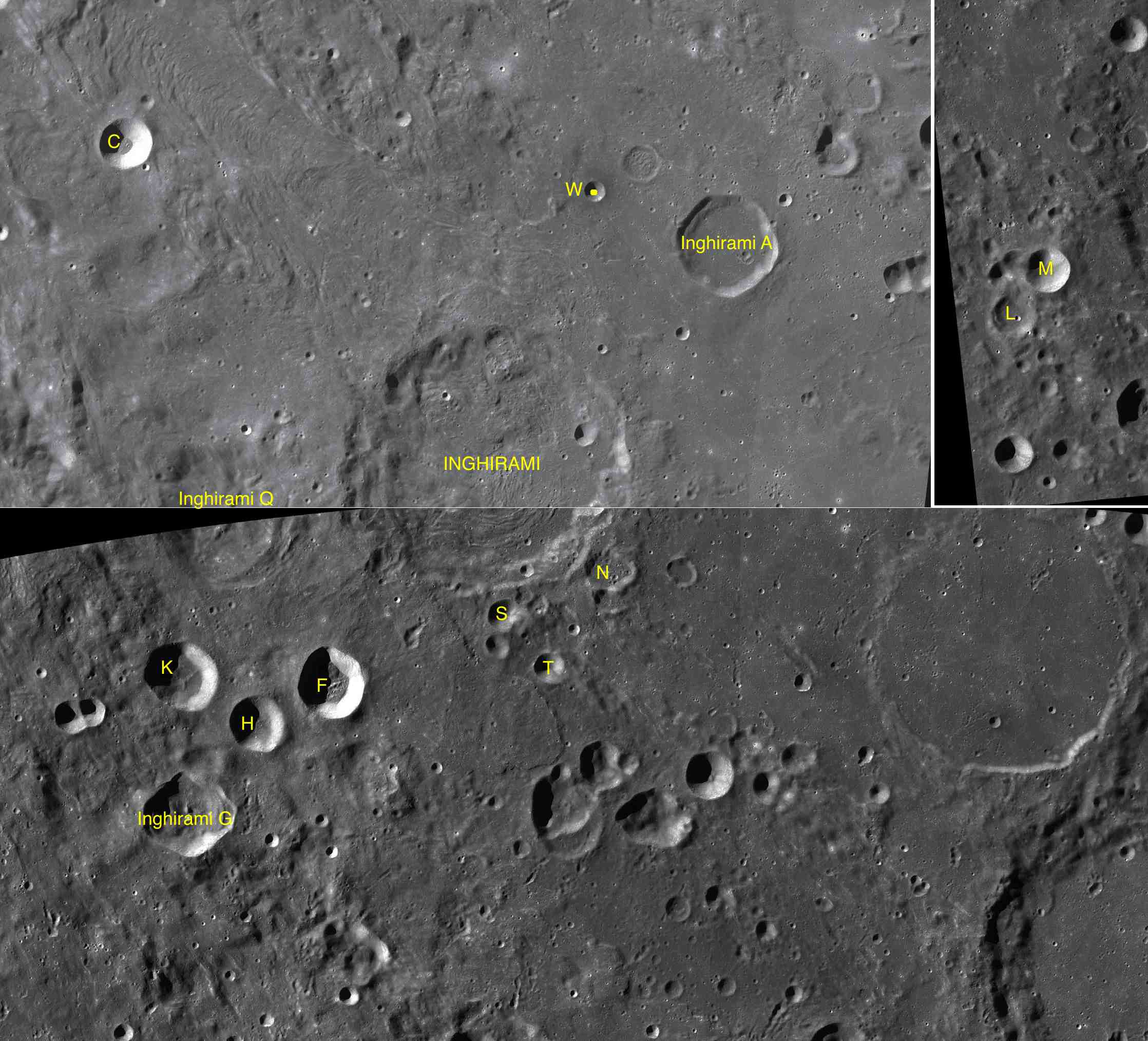 Parts of the charts LAC-109, LAC-110, LAC-124 used for the presentation